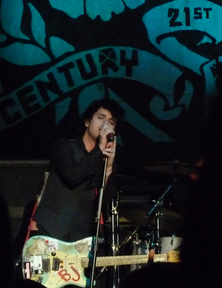 Green Day's Billie Joe Armstrong performing at their 21st Century Breakdown release party on 7 May 2009.